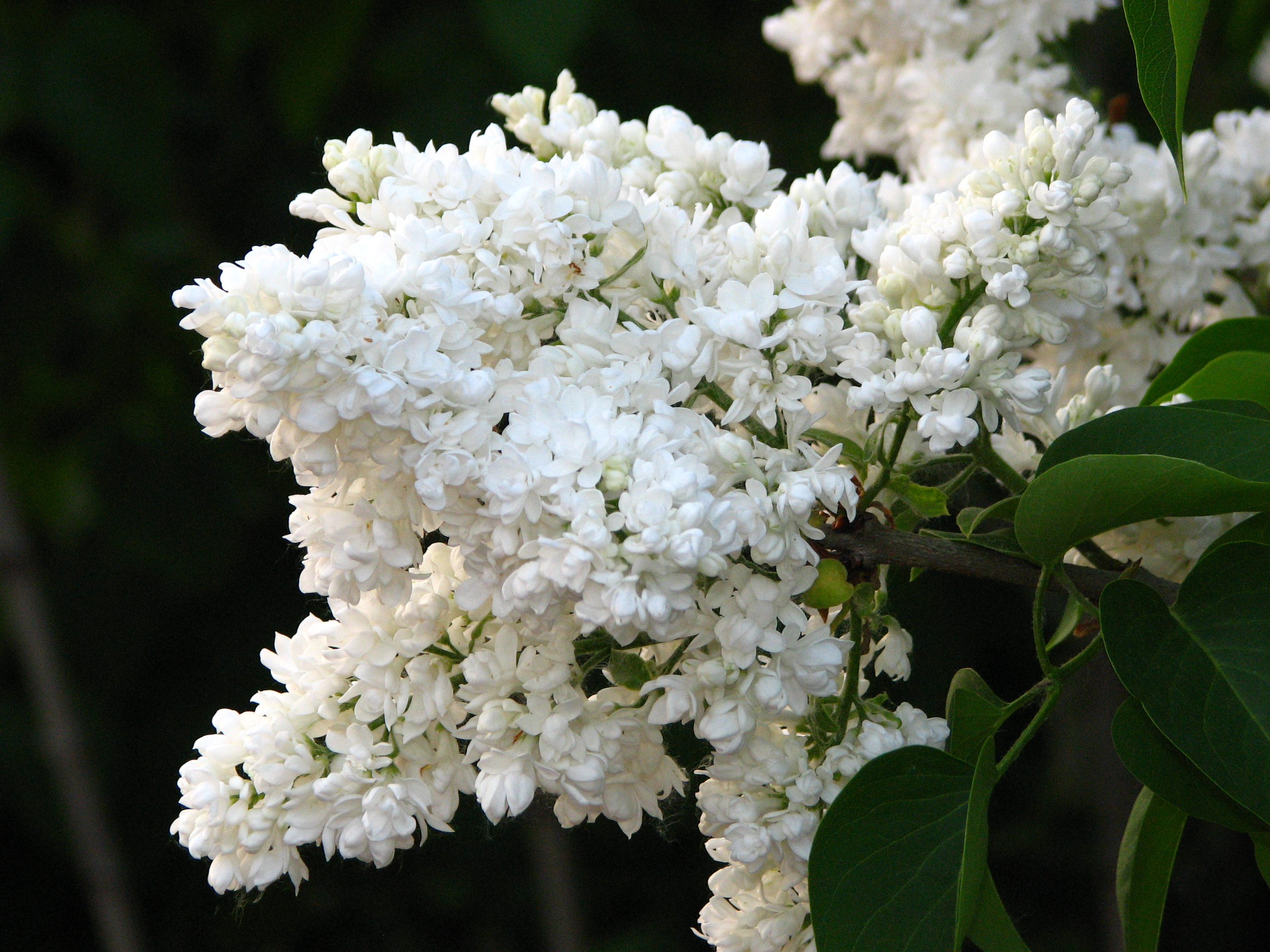 Syringa vulgaris 'Mme Lemoine'. From the collection of the Botanical Garden of Moscow State University (main area on the Sparrow Hills).